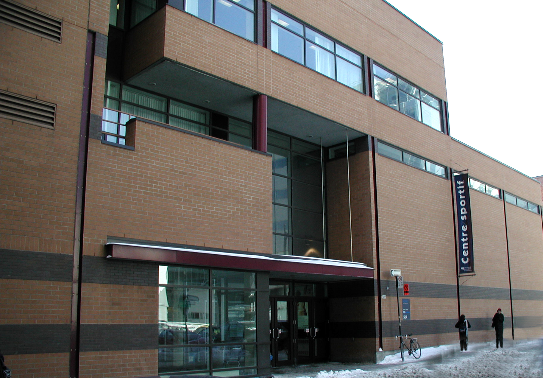 Centre sportif de l'UQAM